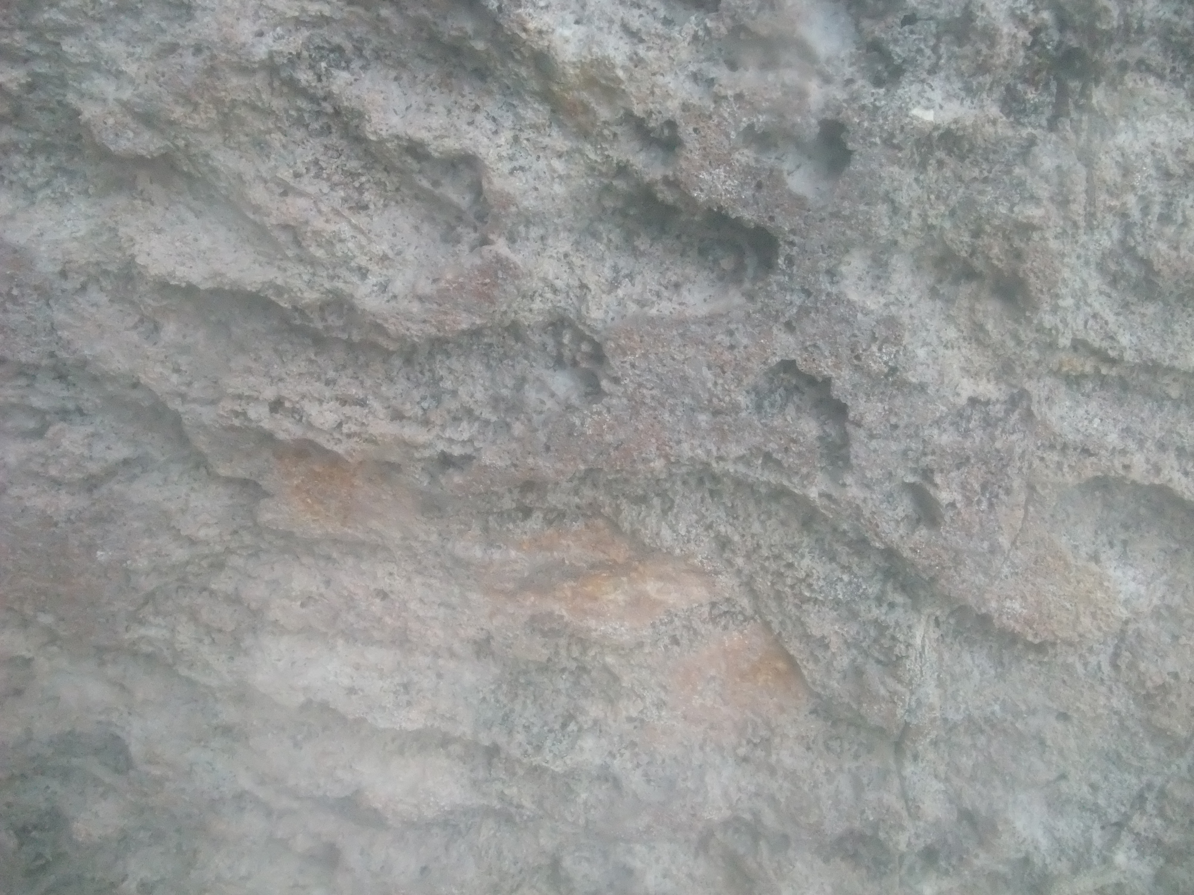 Photo of Lung Ha Wan Rock Carving